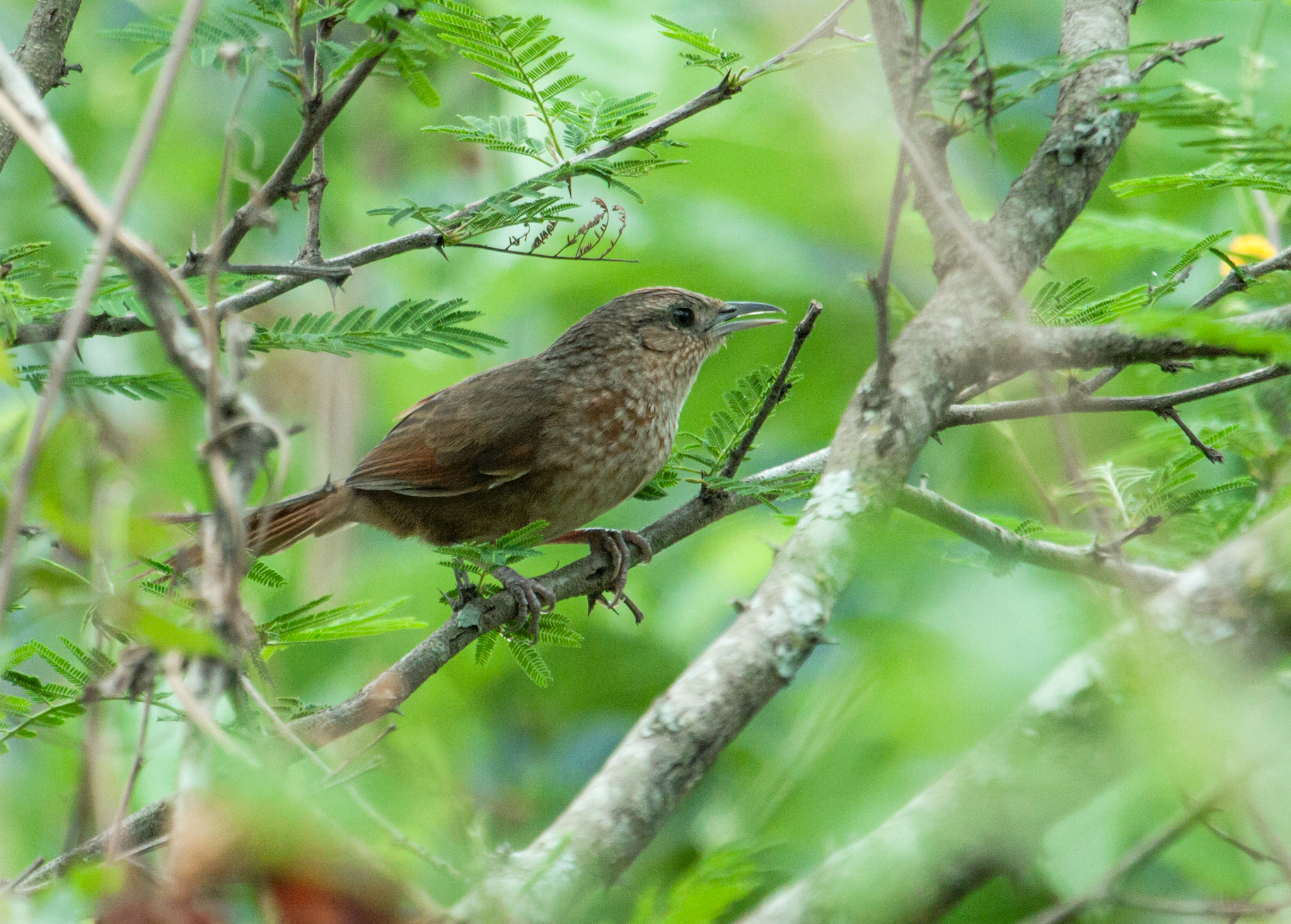 Spot-breasted Thornbird from Animas, Salta, Argentina.